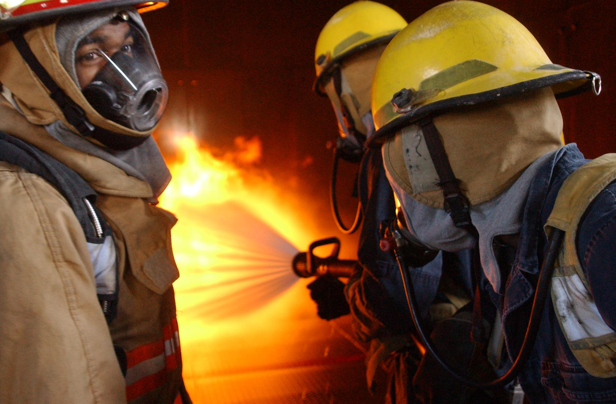 Norfolk, Va. (Feb. 15, 2006). Machinist's mate 1st class Timothy B. Golden looks on as his students apply newly learned skill sets in a training simulator in the basic shipboard firefighting course at Farrier Firefighting School, Naval Station Norfolk. The school prepares all sailors to become an asset in the event of shipboard fires.